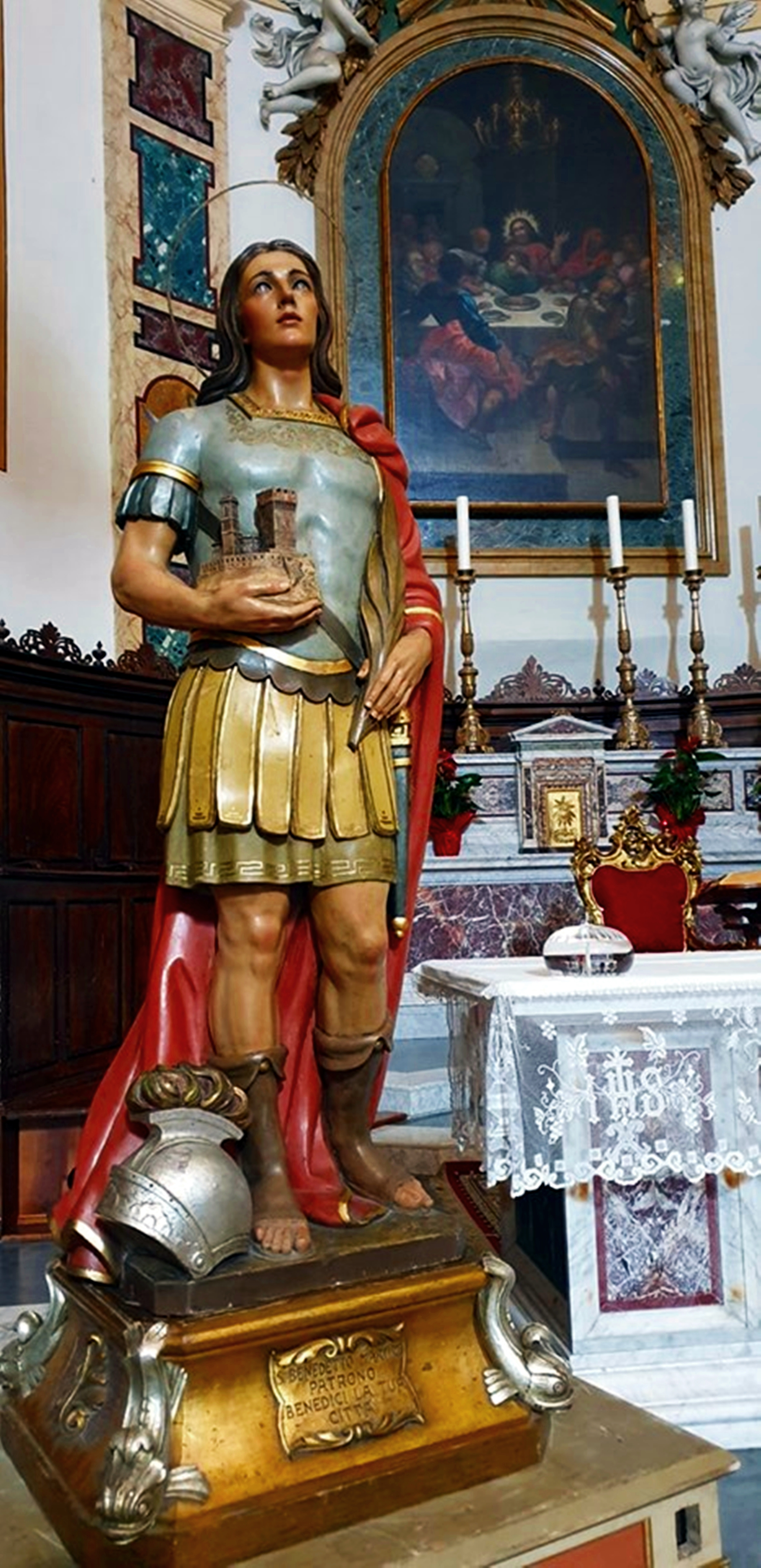 Statue of San Benedetto (4th century), patron saint of the city, at the Abbey of San Benedetto Martire, in the center of the high village of San Benedetto del Tronto.